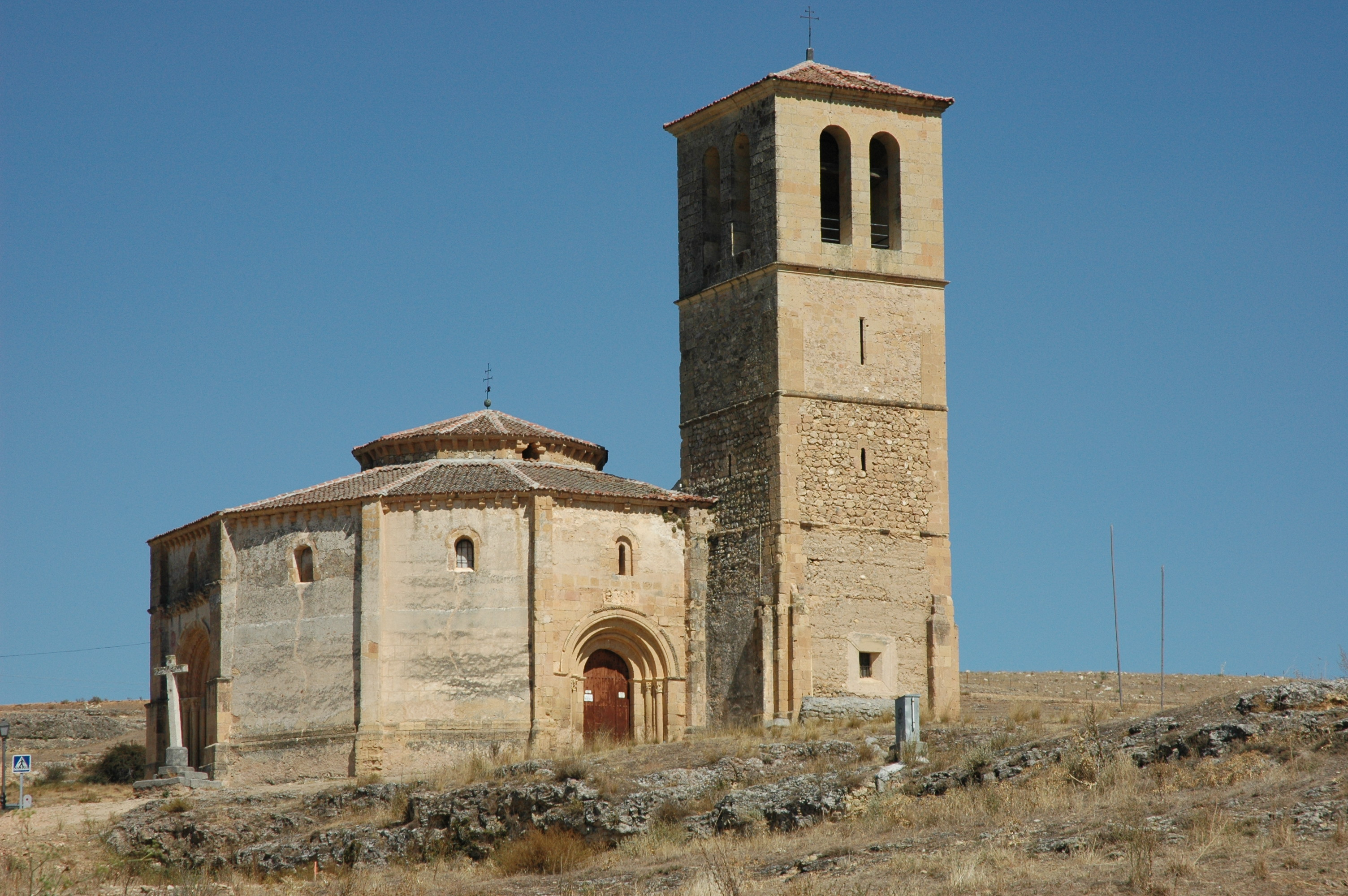 Vera Cruz Templar church, Segovia, Spain